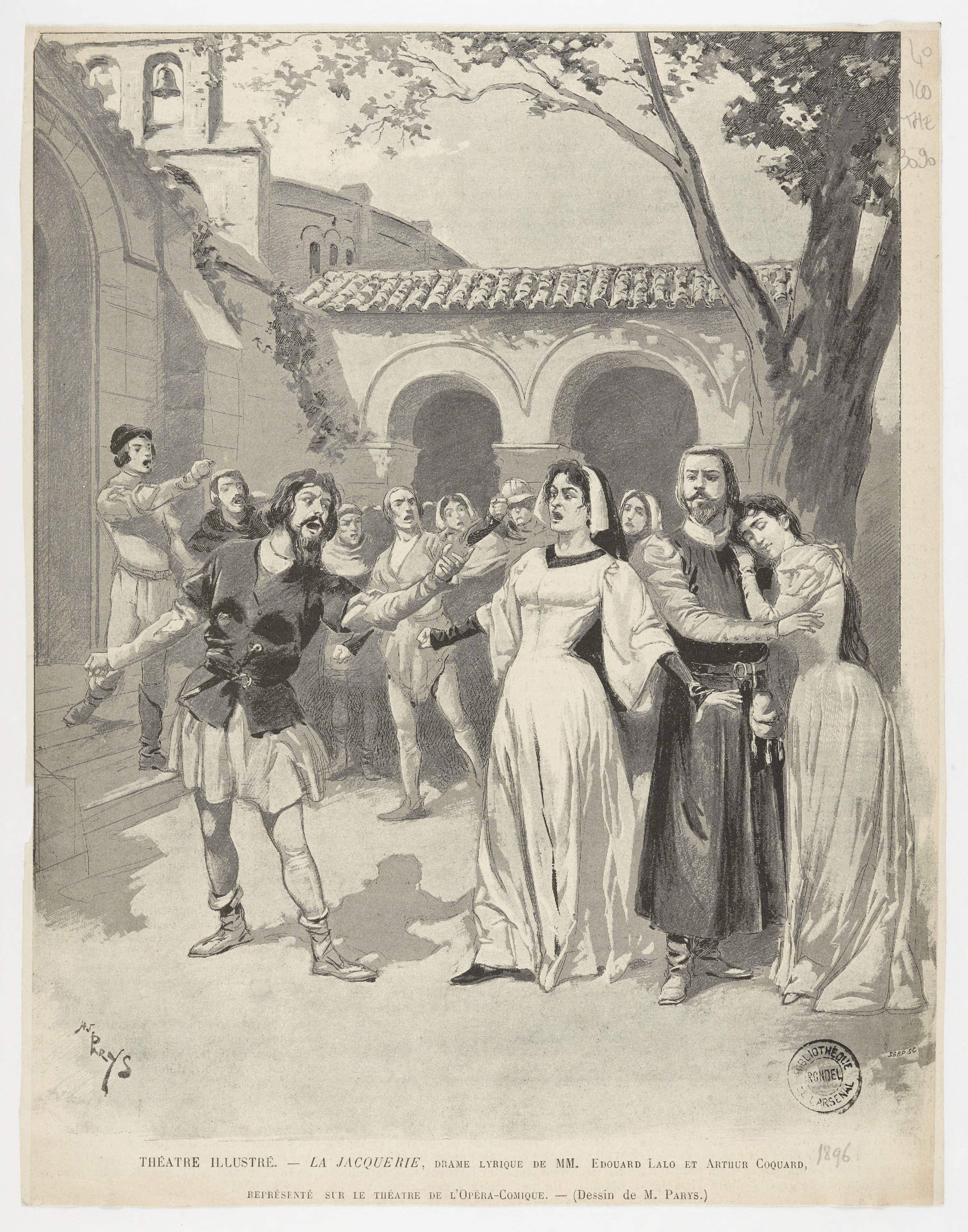 'La jacquerie' Act IV - from 'Le theatre illustre', 1895